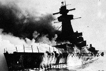 The German armored cruiser Admiral Graf Spee in flames after being scuttled in the River Plate Estuary off Montevideo, Uruguay.